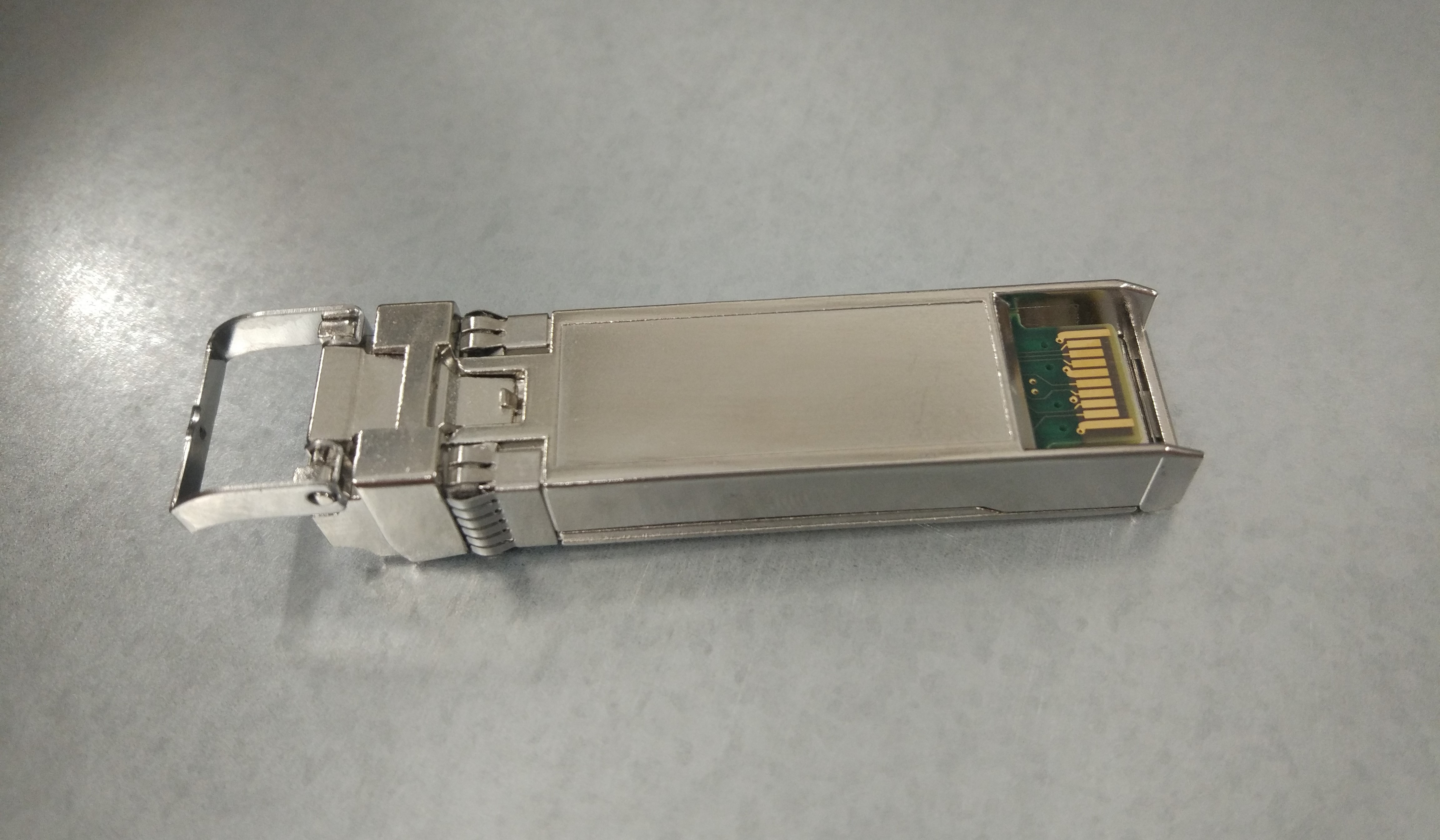 QLogic FTLF8529P3BCV-QL 16Gb Fibre Channel SFP+ transceiver